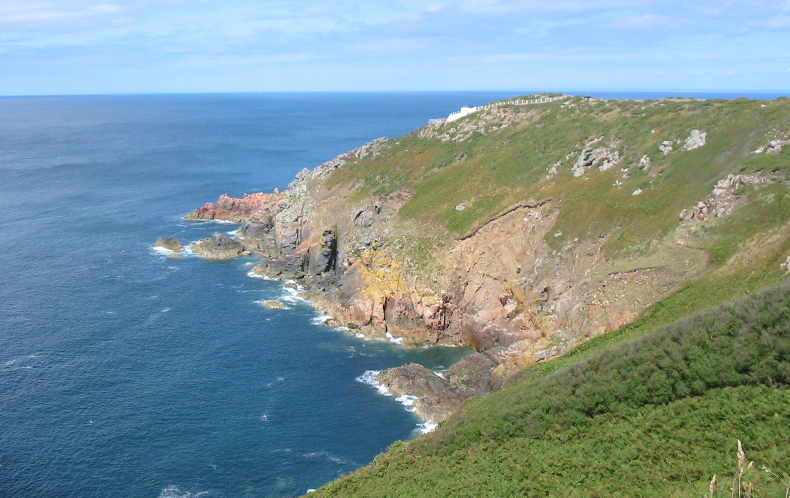 Saint John, Jersey, 3 August 2009